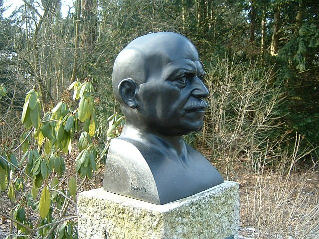 Carl von Weinberg, a jewish undertaker and patron and sponsor of various social institutions in Frankfort, Germany. The statue is near the entrance of a playground in Frankfurt-Niederrad. It was made by Alexander Archipenko in 1961 in bronce. Image self-made on march 12th. 2006 --Peng 13:29, 12 March 2006 (UTC)